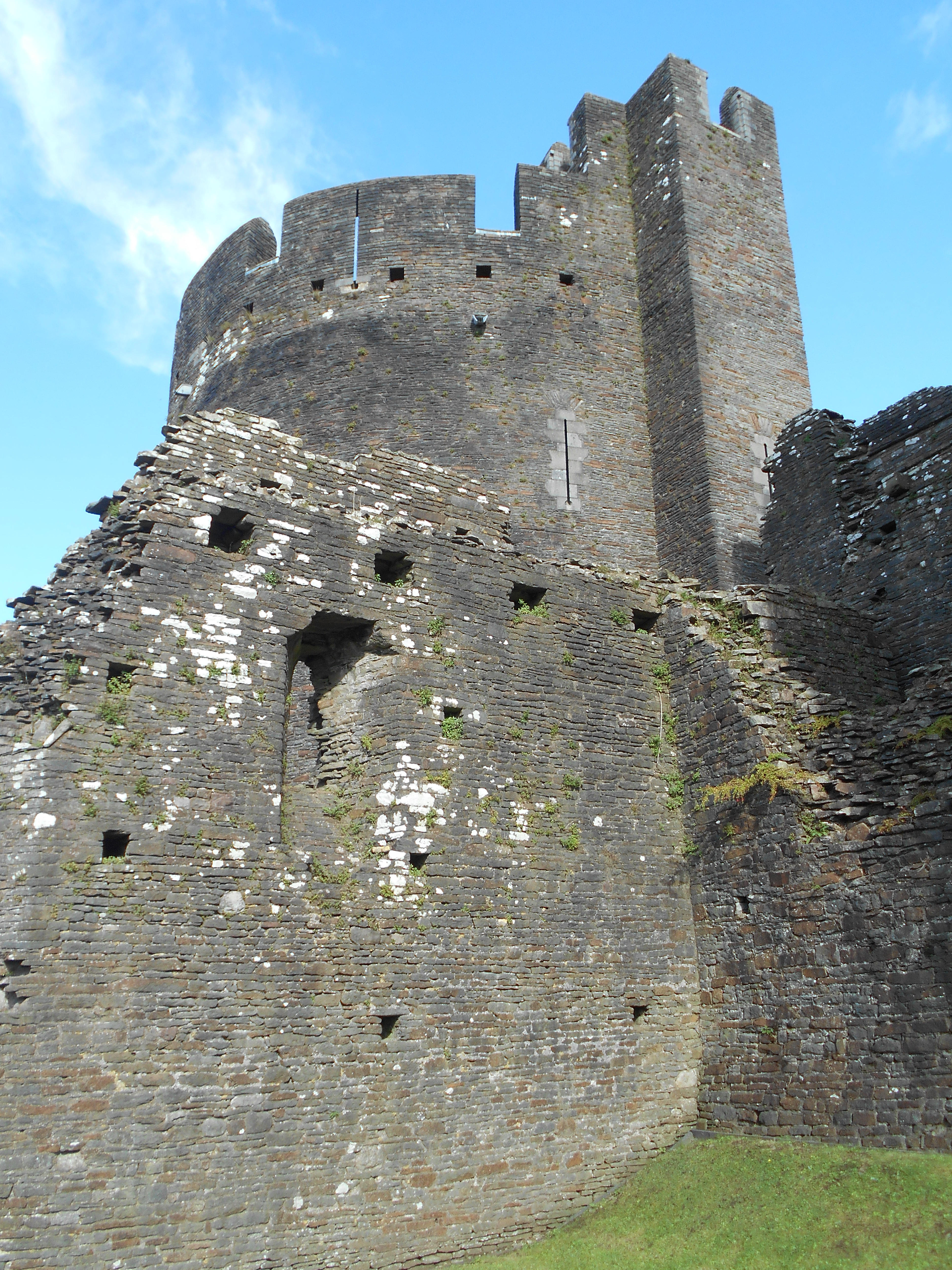 Caerphilly Castle, Wales.